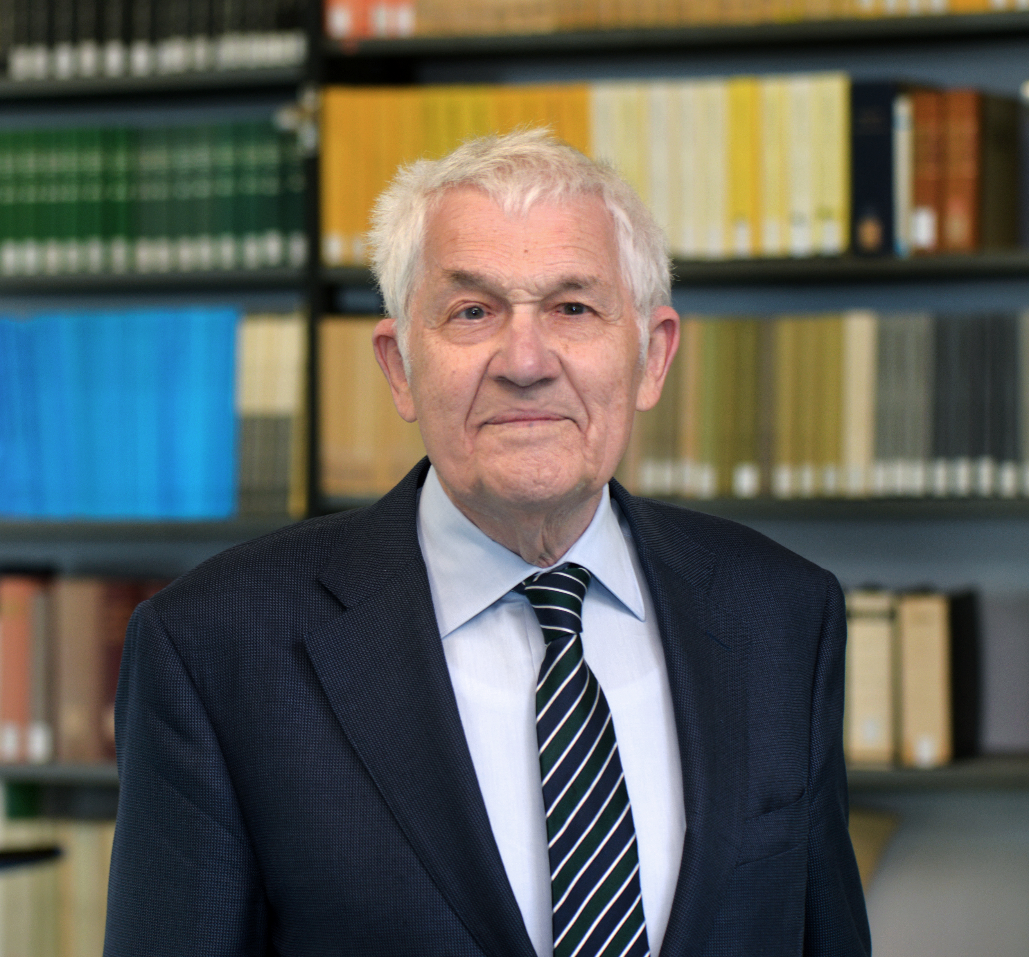 Prof. Dr. Rudolf Morsey